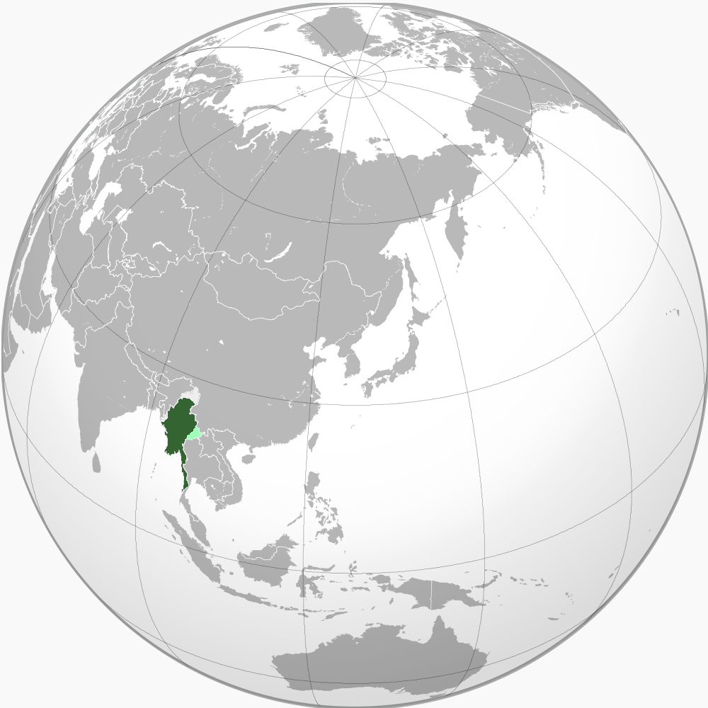 Green: Under government authority Light silver: Remainder of Burma Light green: Occupied and annexed by Thailand